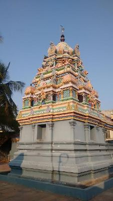 Vallam muthukkan mariamman temple வல்லம் முத்துக்கண் மாரியம்மன் கோயில்